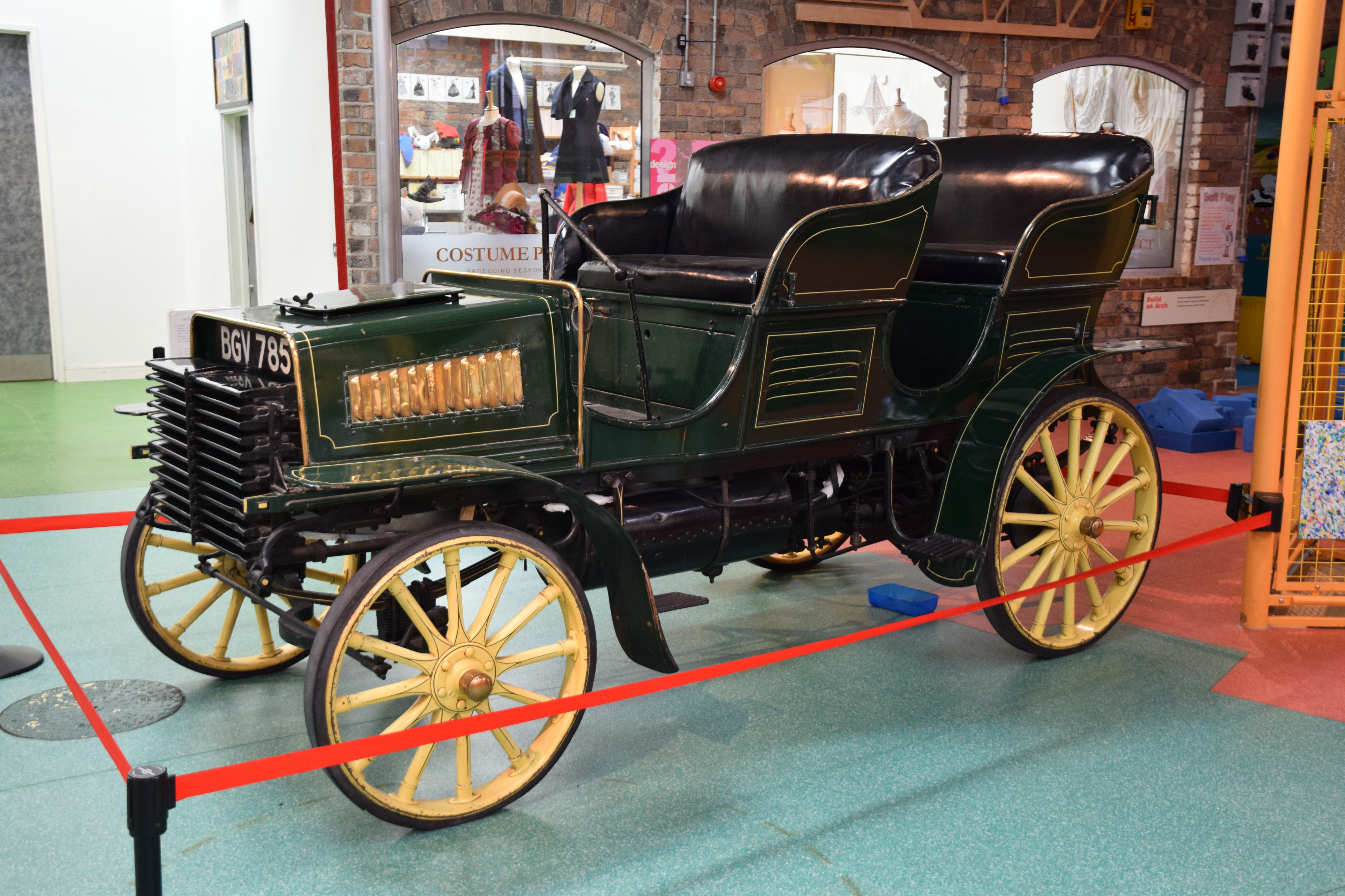 1901 Lifu steam car (powered by paraffin) at the Enginuity Museum, Coalbrookdale